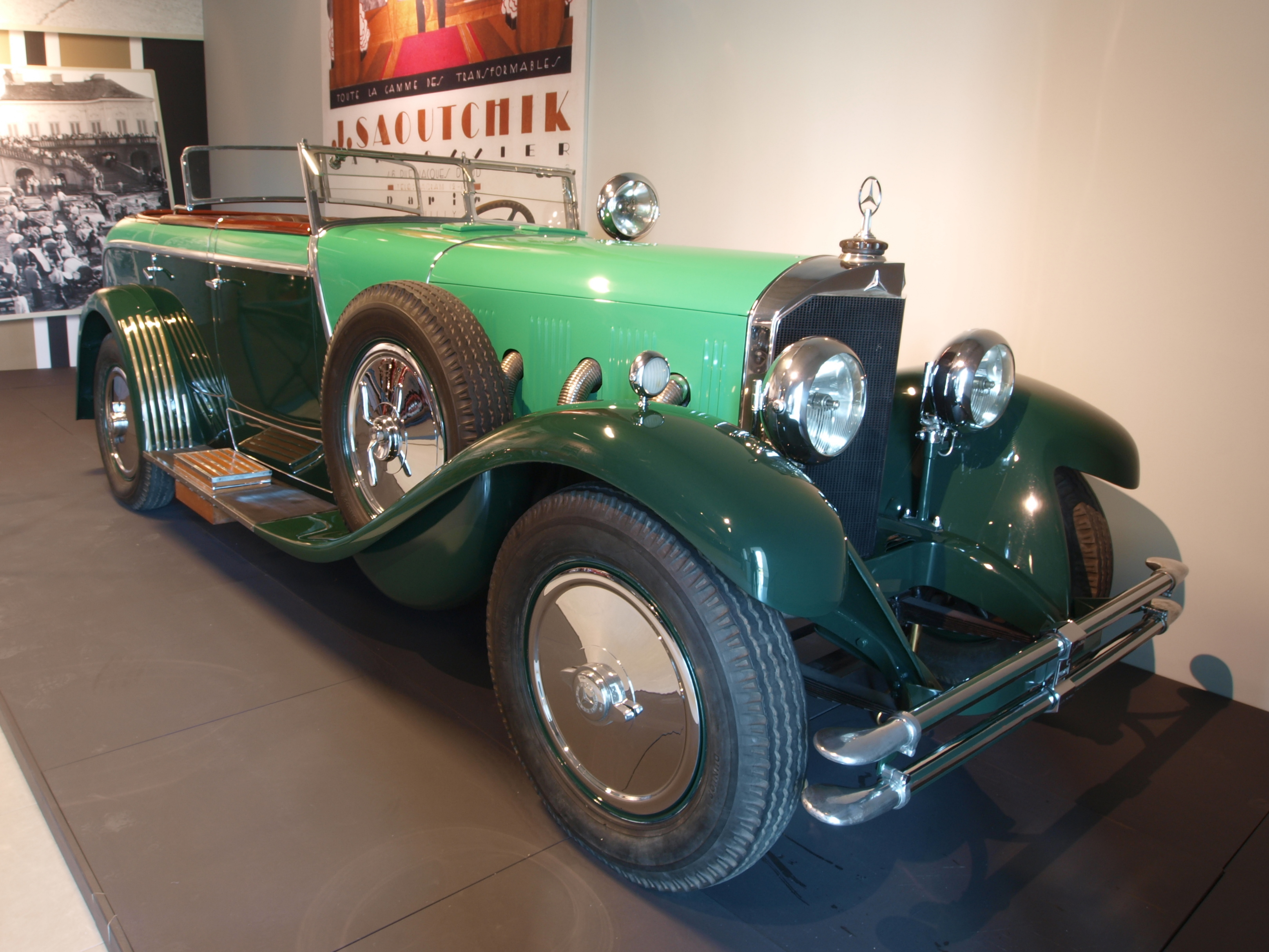 Photographed at the Louwman museum / Louwman Collection, The Netherlands.